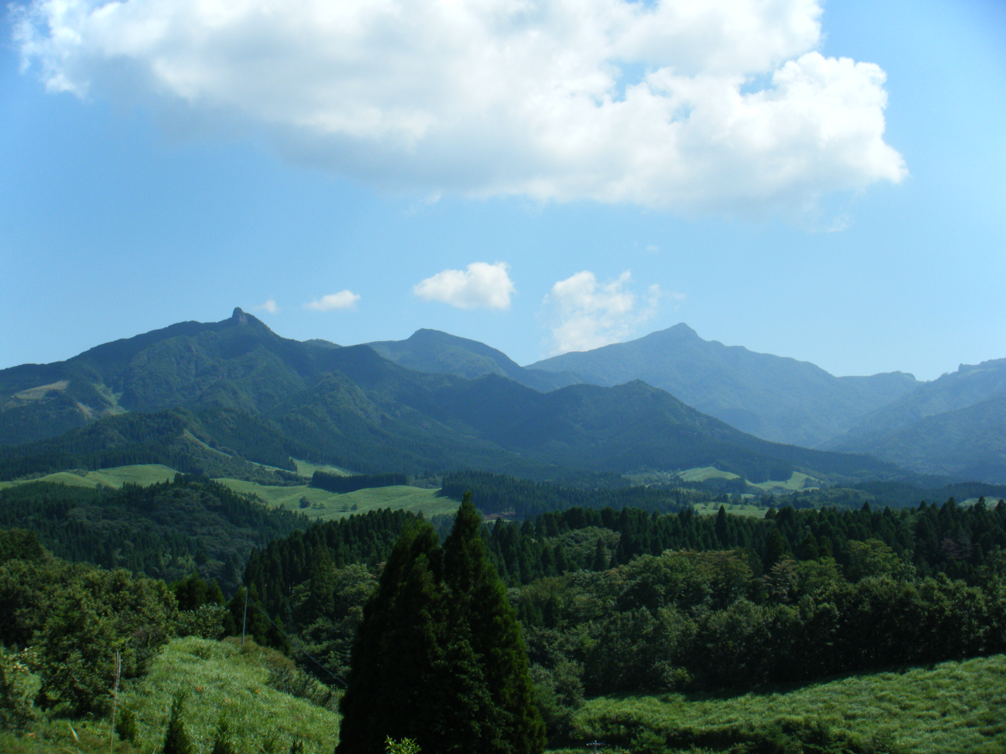 The WNW side of Mount Sobo (Sobosan) on the border between Oita and Miyazaki Prefectures, Japan.